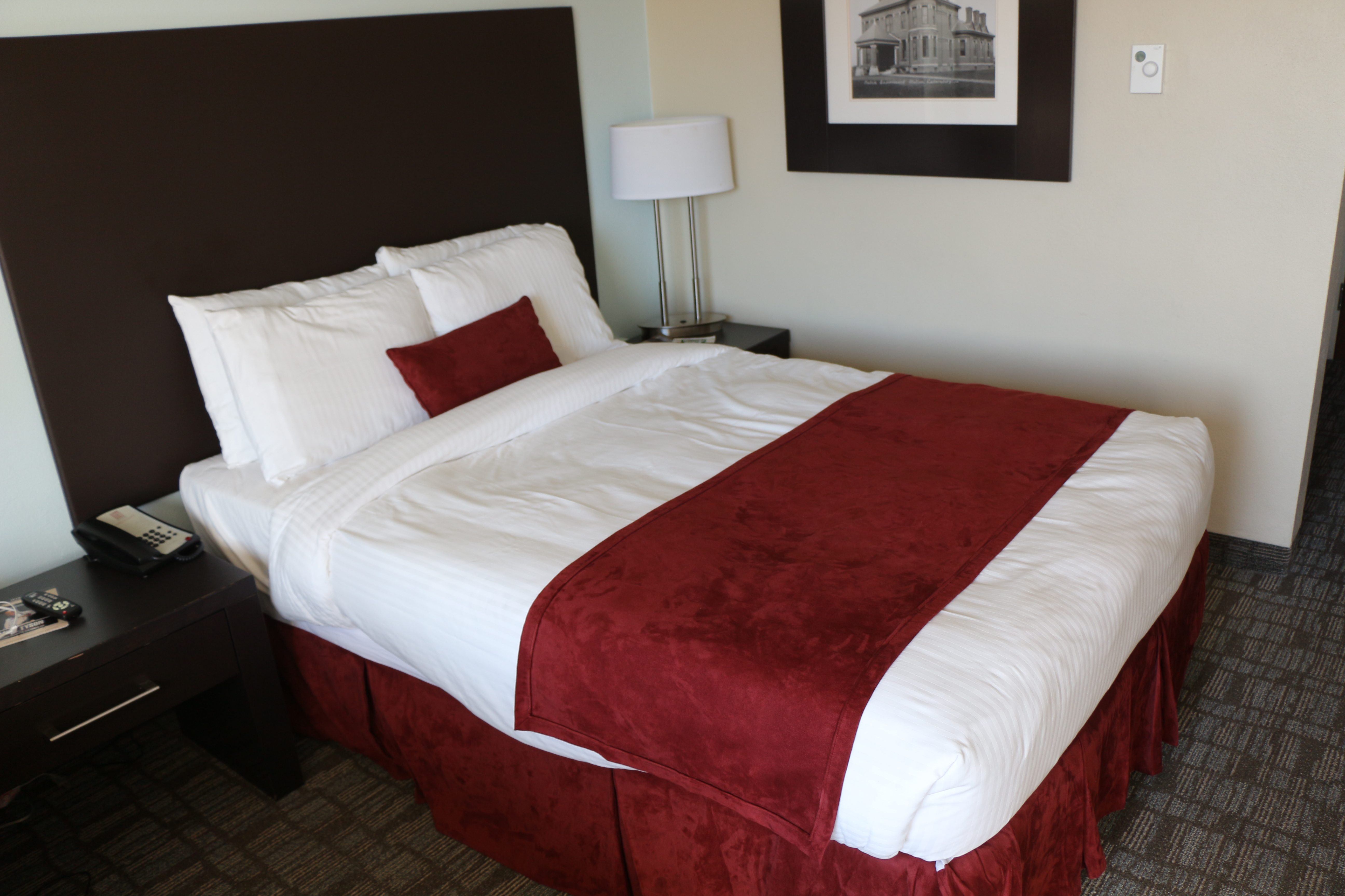 Bed at the UMass Hotel